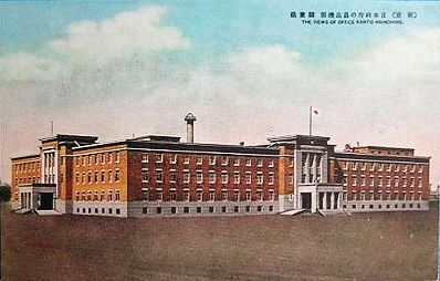 Office of Kwantung.